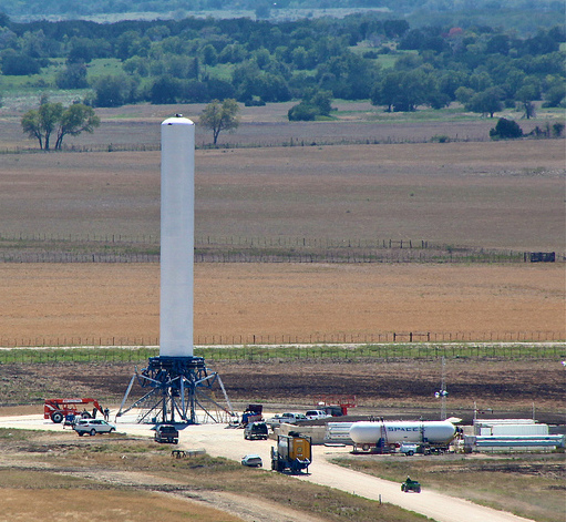 Seen from a distance, atop the F9 test tower.